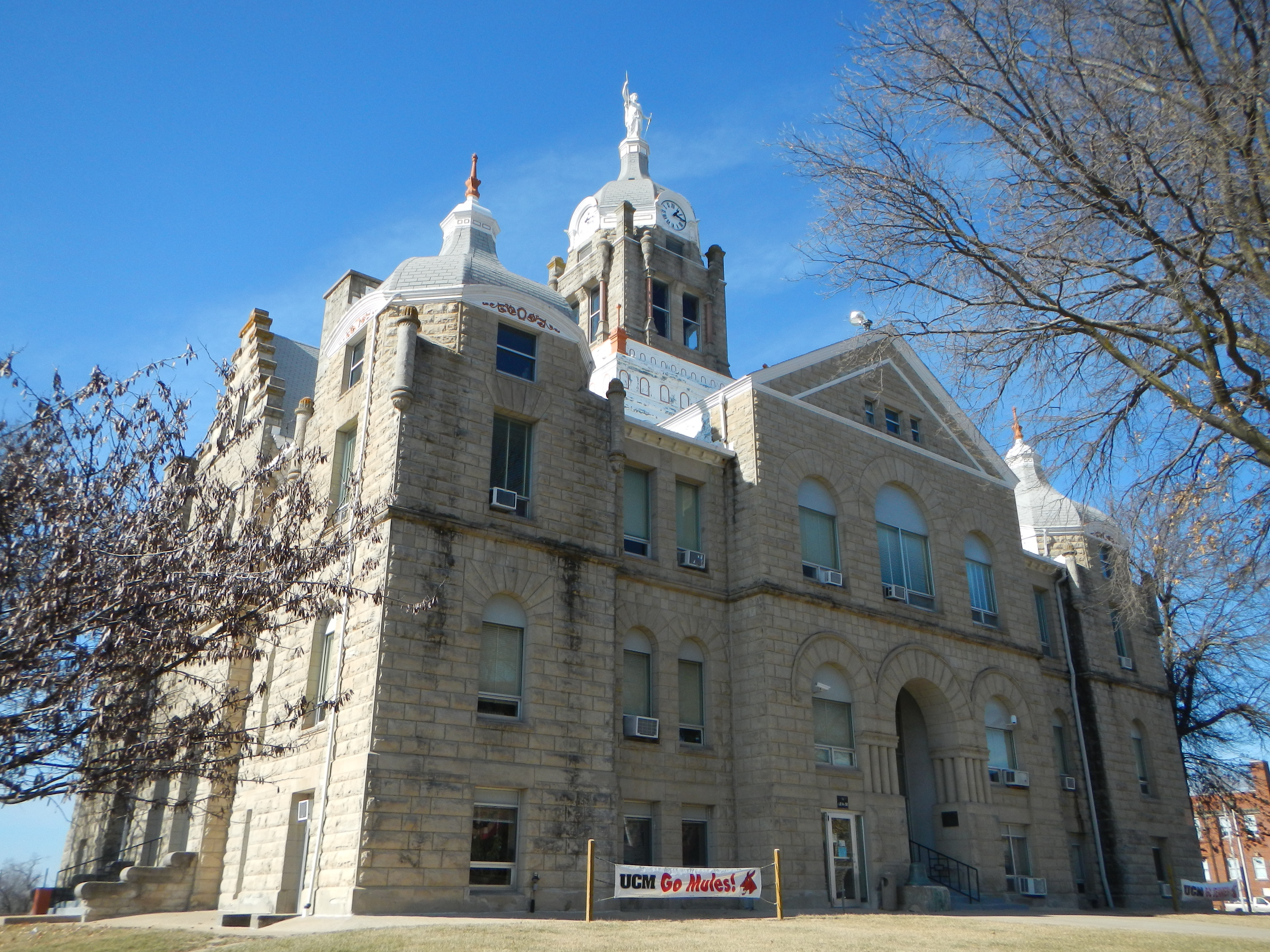 Johnson County Courthouse